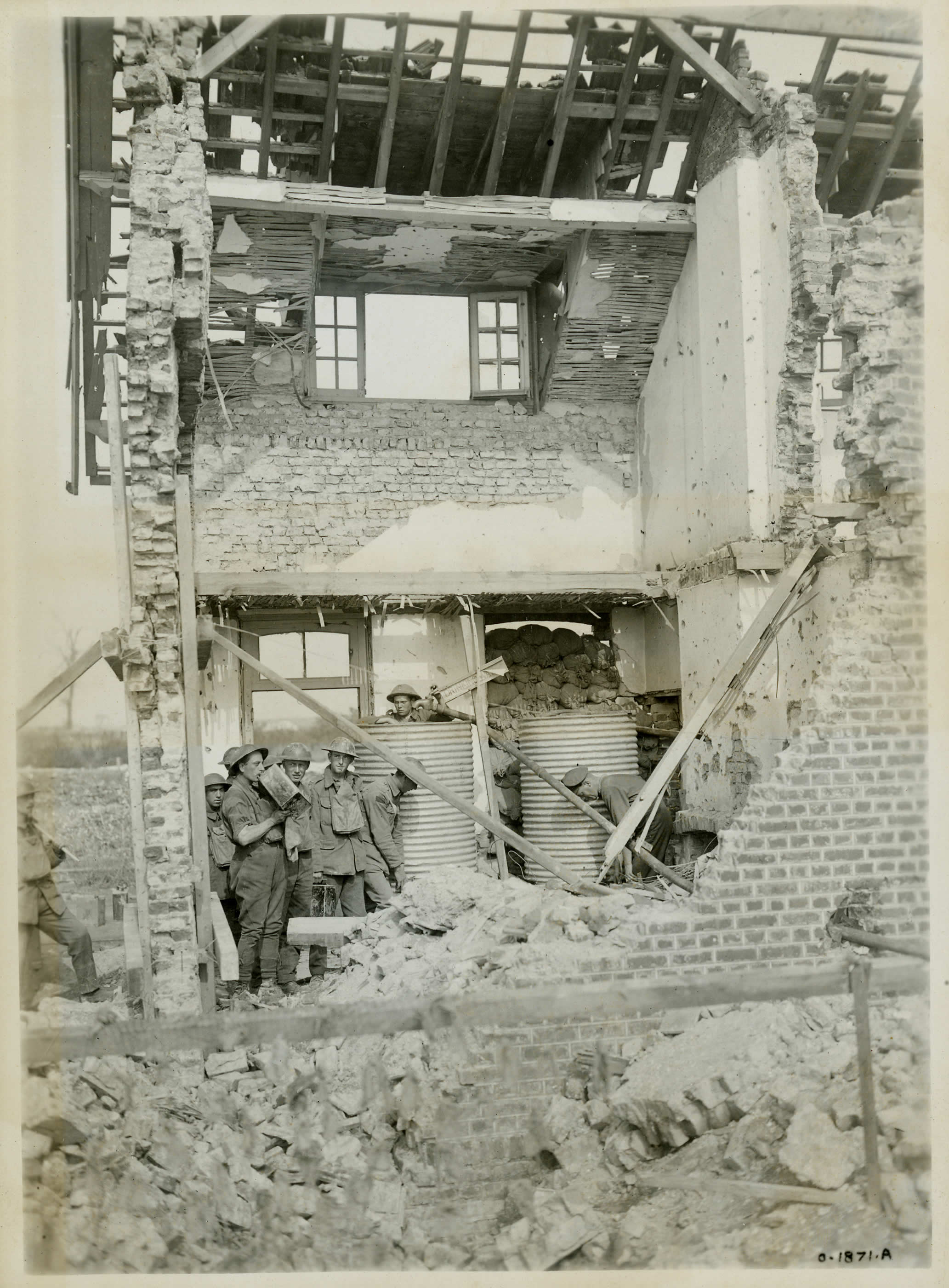 Canadian soldiers used this ruined house west of Lens to shelter their water tanks. From here, water would be carried forward to soldiers in the trenches. This photo was taken in September 1917, about a month after the battle.